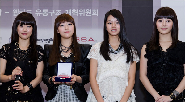 Girl's Day on November 3, 2010